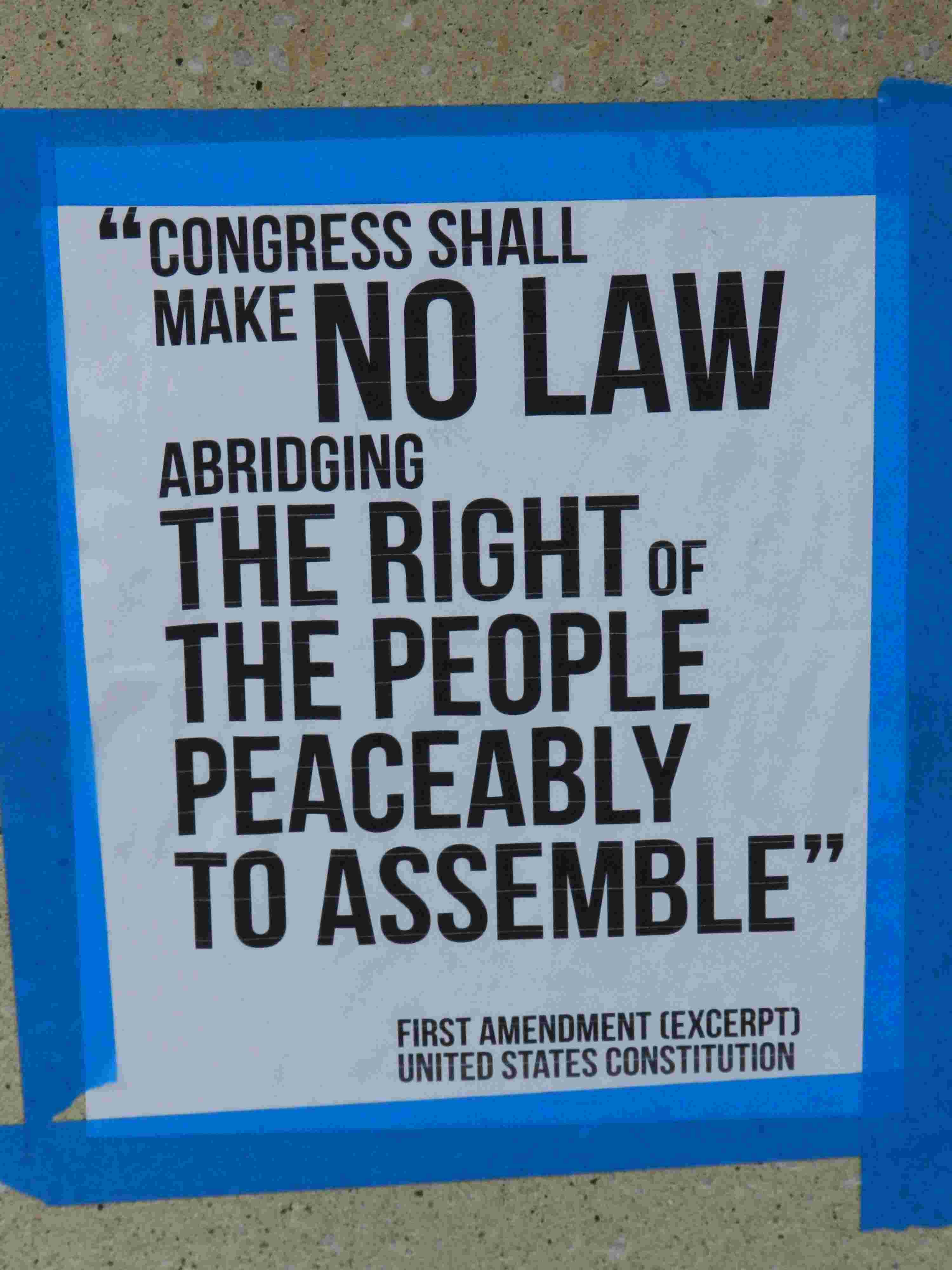 Occupy Oakland, November 12 2011, afternoon. quote from constitution on peacable assembly.